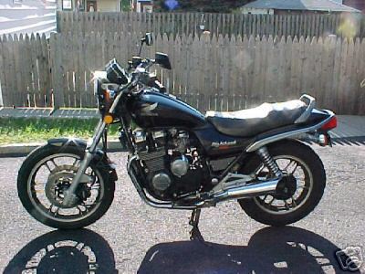 fx6893, self-made